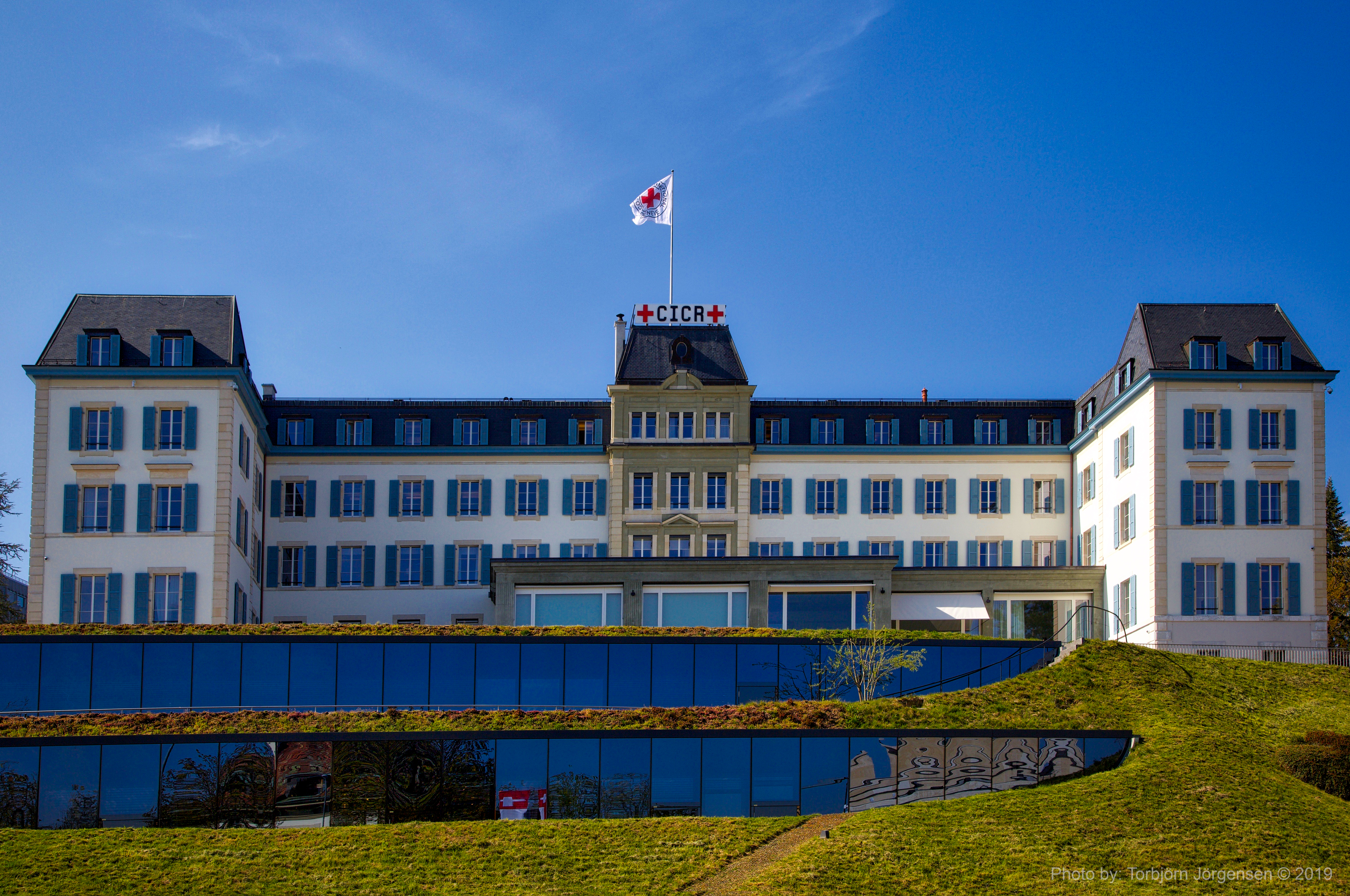 International Committee of the Red Cross, Geneva